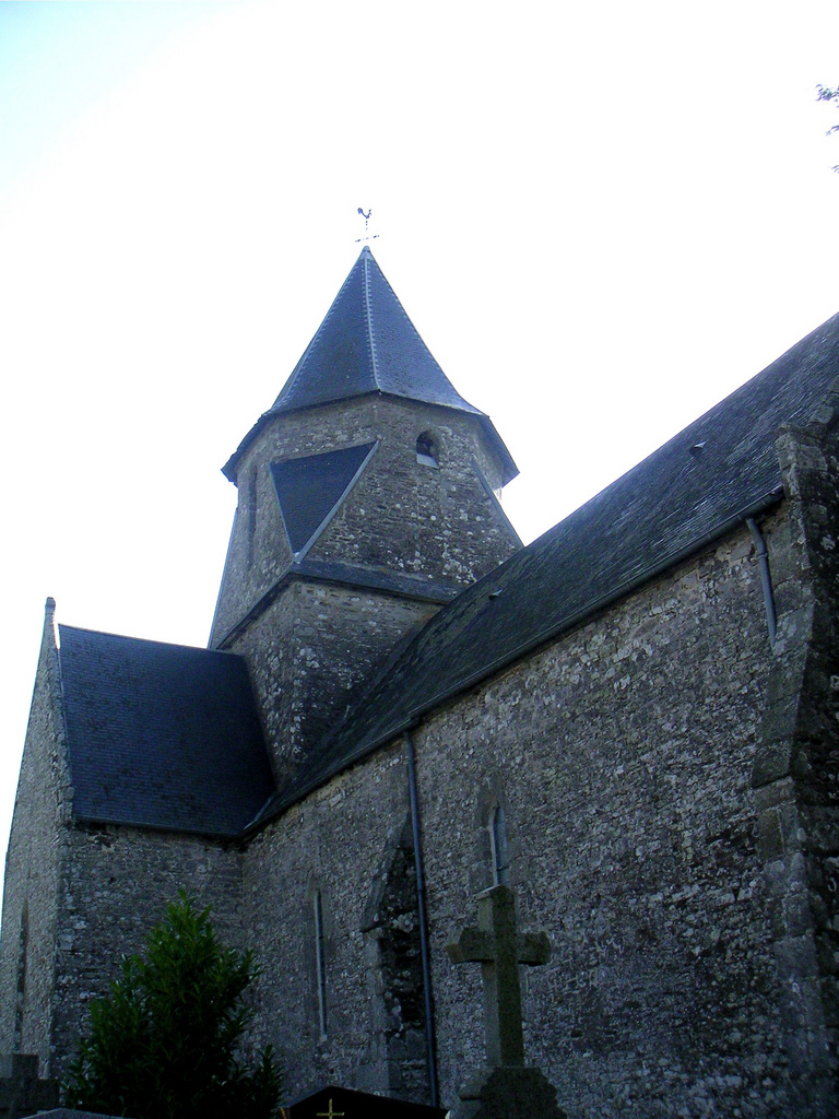 Church of La Meurdraquière (Manche)